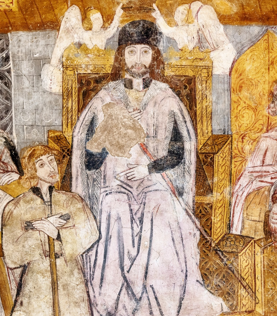 Detail of the Allegory of the Good and Bad Judge, 15th-century fresco in the old Town Hall and Courthouse building in Reguengos de Monsaraz, Portugal.